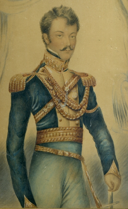 inscribed on the reverse "CAPTAIN HAY. . . . . . "